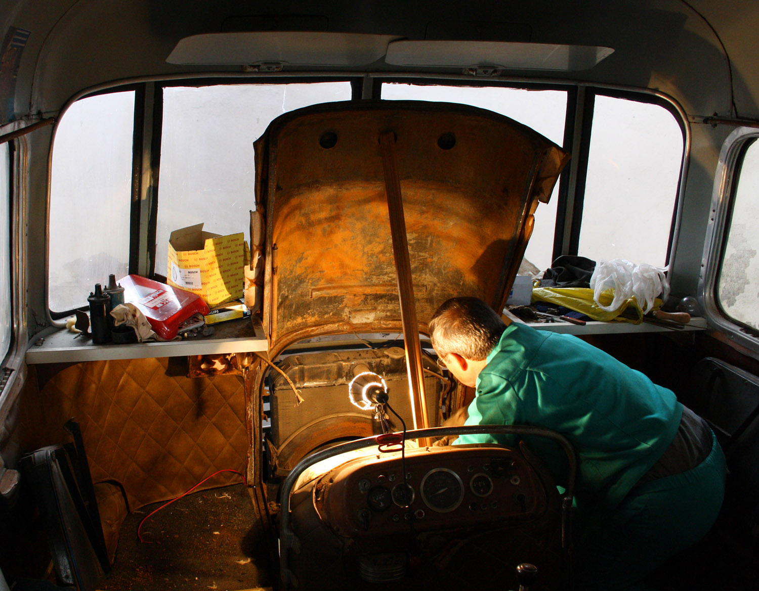 Dresina de Vía y Obras en el Museu de Ferrocarril de Catalunya